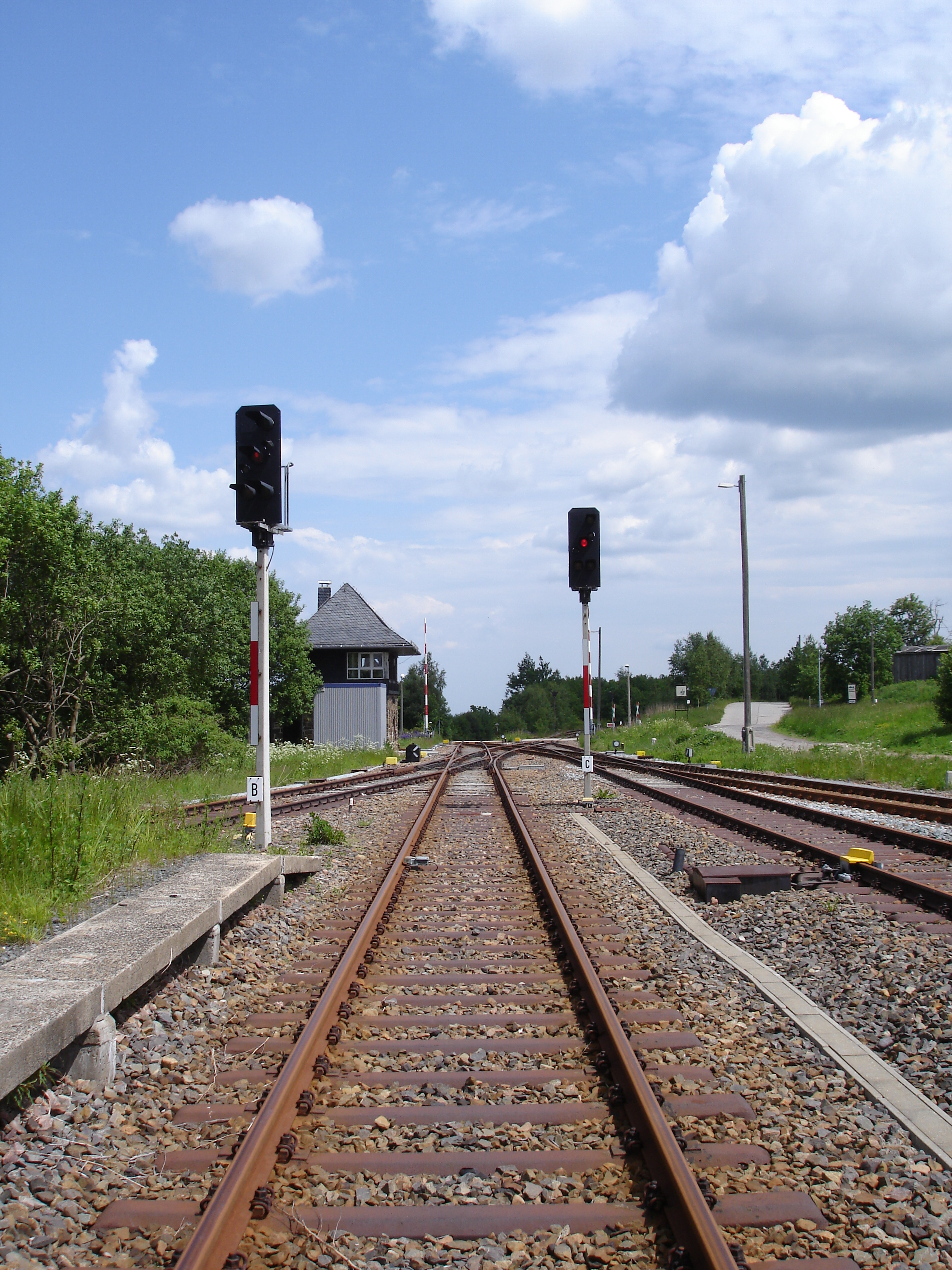 station Kurort Altenberg, Müglitztalbahn, Saxony, Germany